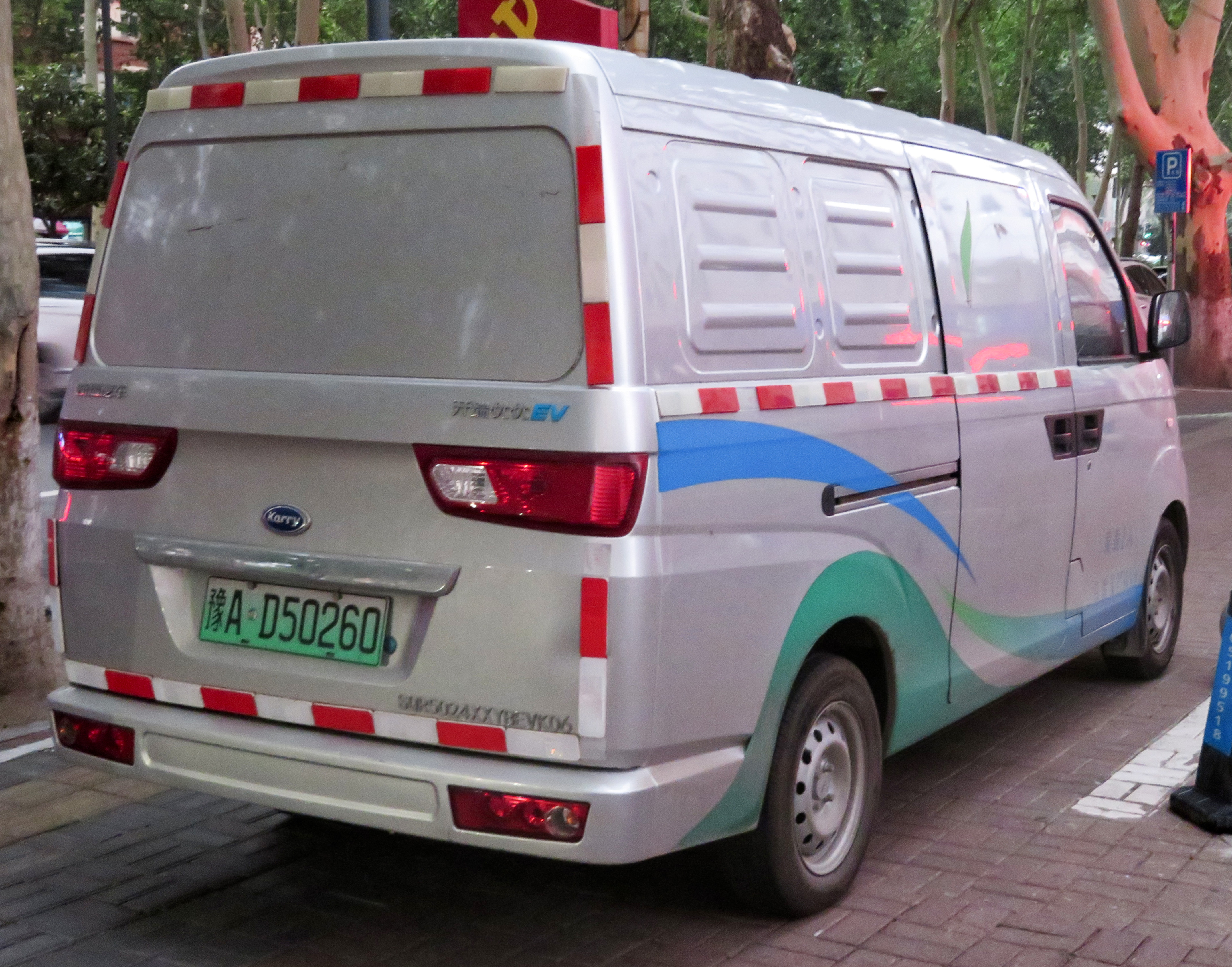 A 2018 Chery Karry Youyou EV photographed in Xigong District, Luoyang, Henan province, China